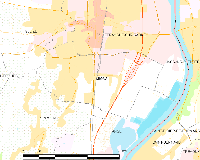 Map of French municipality